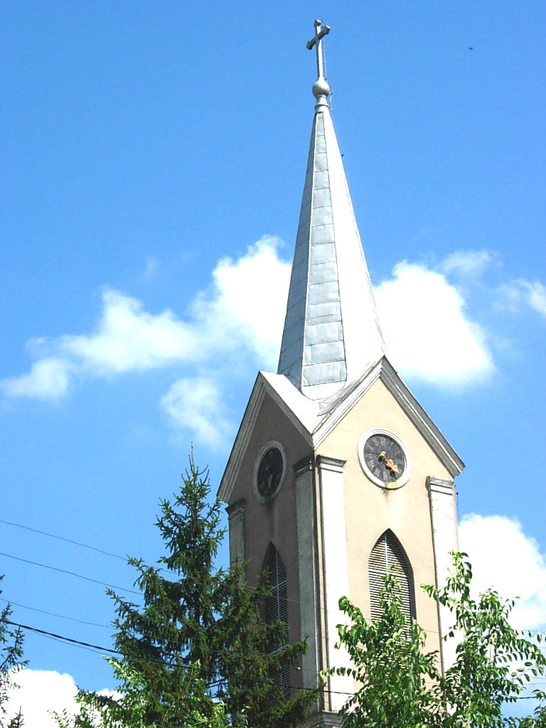 The St. Peter and Paul Apostles Catholic Church in Rusko Selo.